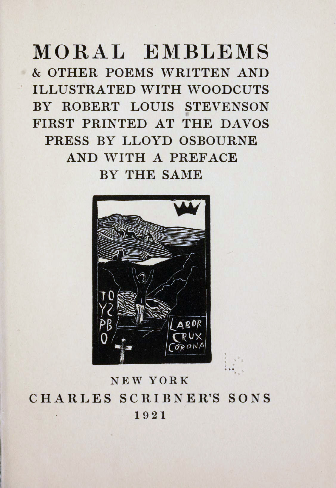 Title page of the 1921 edition of Moral Emblems and Other Poems. This woodcut was made by Stevenson in 1881 during his stay in Davos, in Switzerland, with his wife Fanny and her twelve years old son Lloyd Osbourne, to illustrate Moral Emblems. Ninety copies were printed by Lloyd Osbourne on a toy printing press and sold at six pence each.